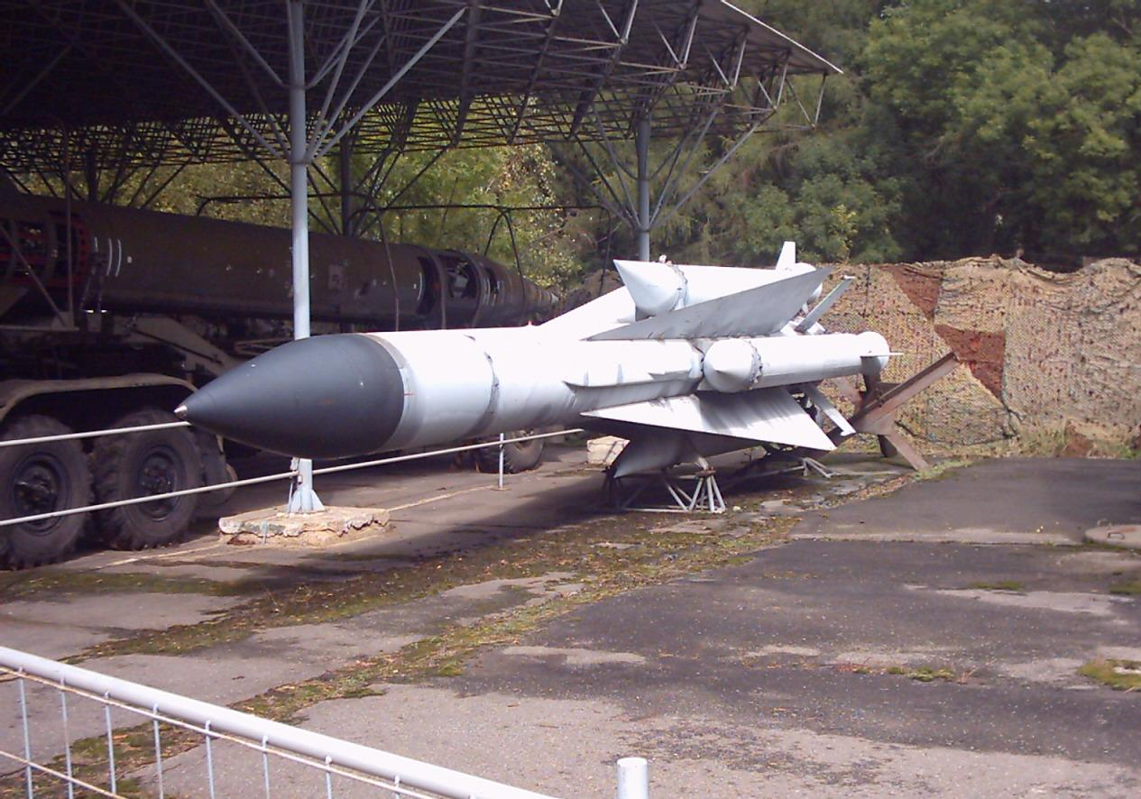 Rakieta systemu S-200E Wega A missile of the S-200E Vega (SA-5 Gammon) SAM system